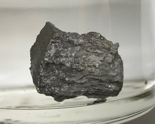 Erbium metal